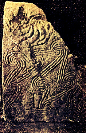 Stolovatez Stella